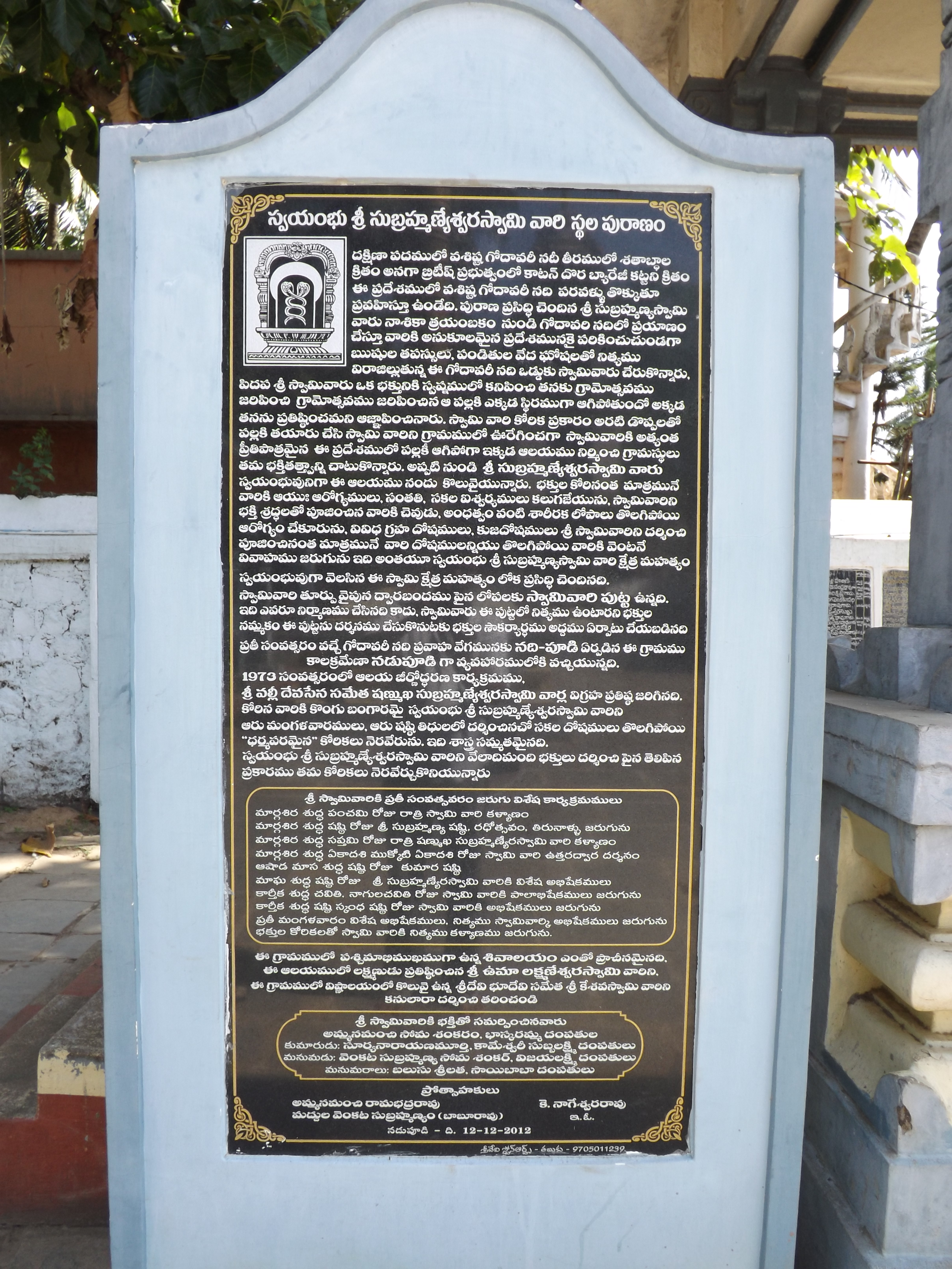 A.P.Village Nadipudi Subrahmanya Temple